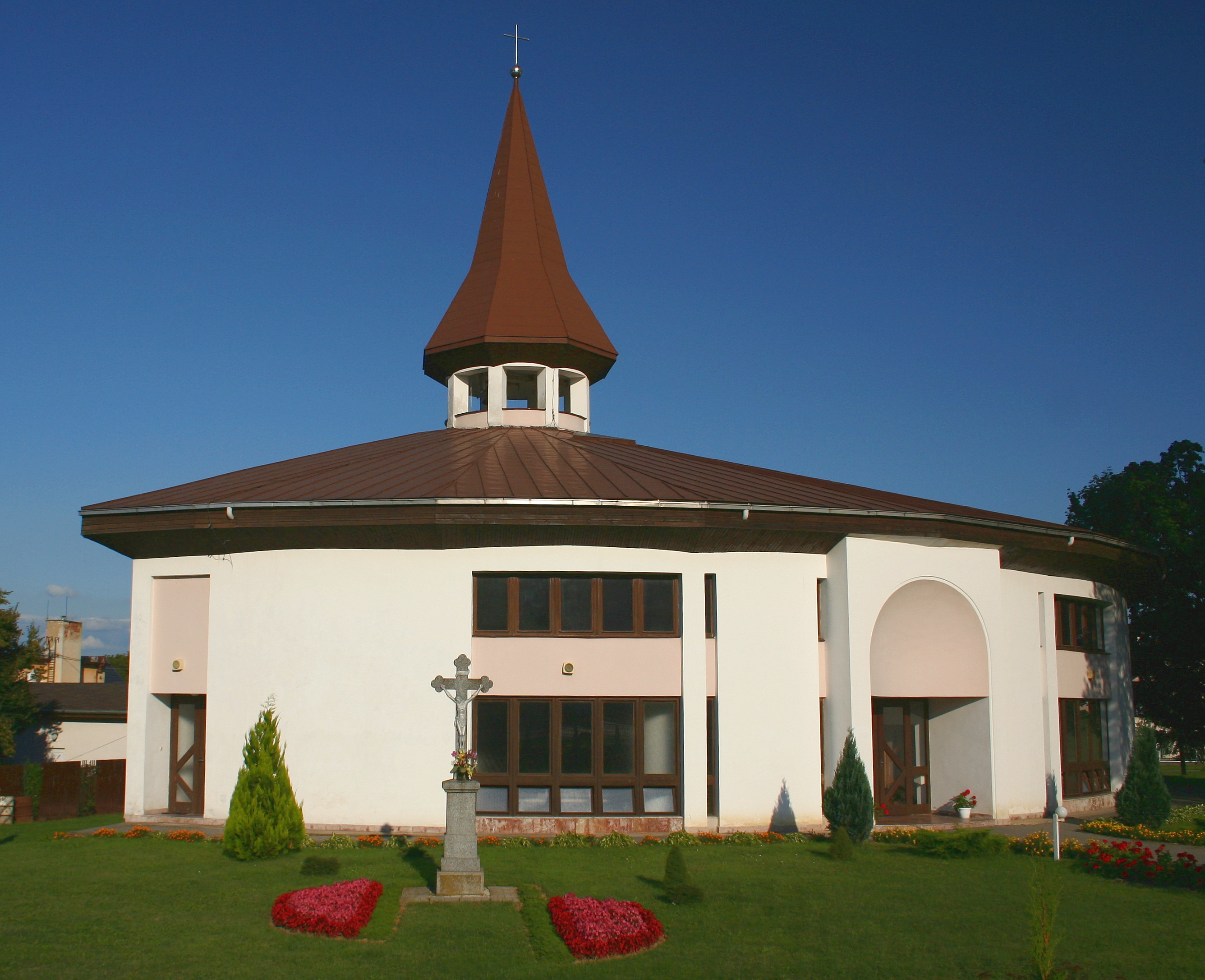 church in Majerovce, village in Slovakia